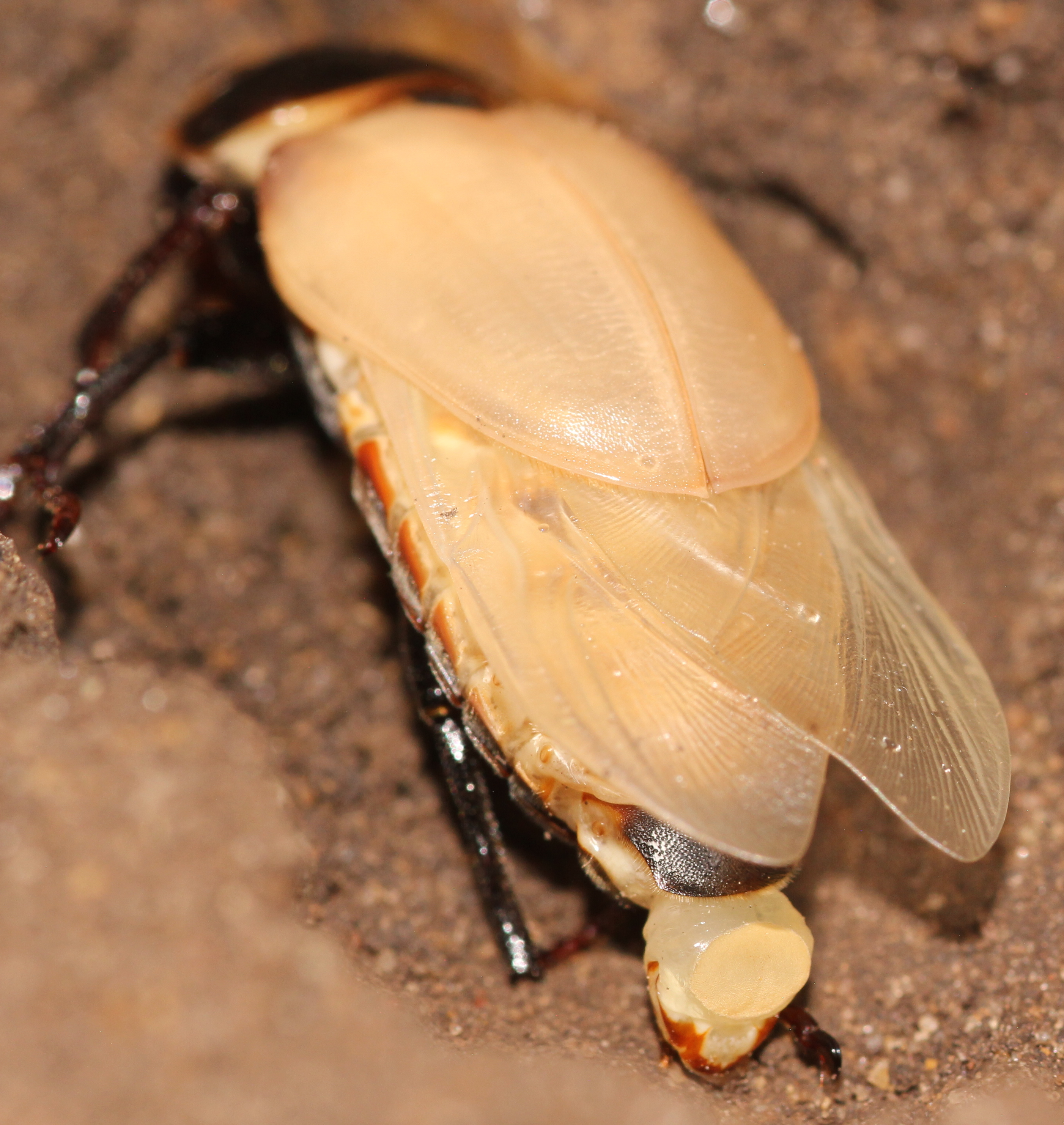 The mycangium everts soon after eclosion when the female exhibits a remarkable behaviour